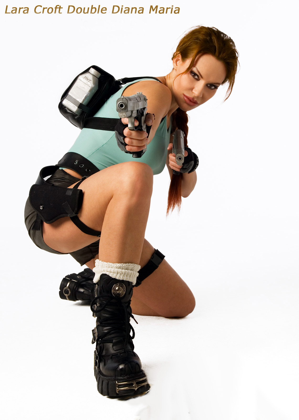 Lara Croft Double Diana Maria Dorow